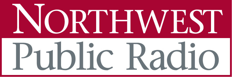 Logo of Northwest Public Radio